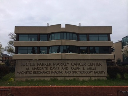 M. Margrite Davis and Ralph E. Mills Magnetic Imaging and Spectroscopy Center